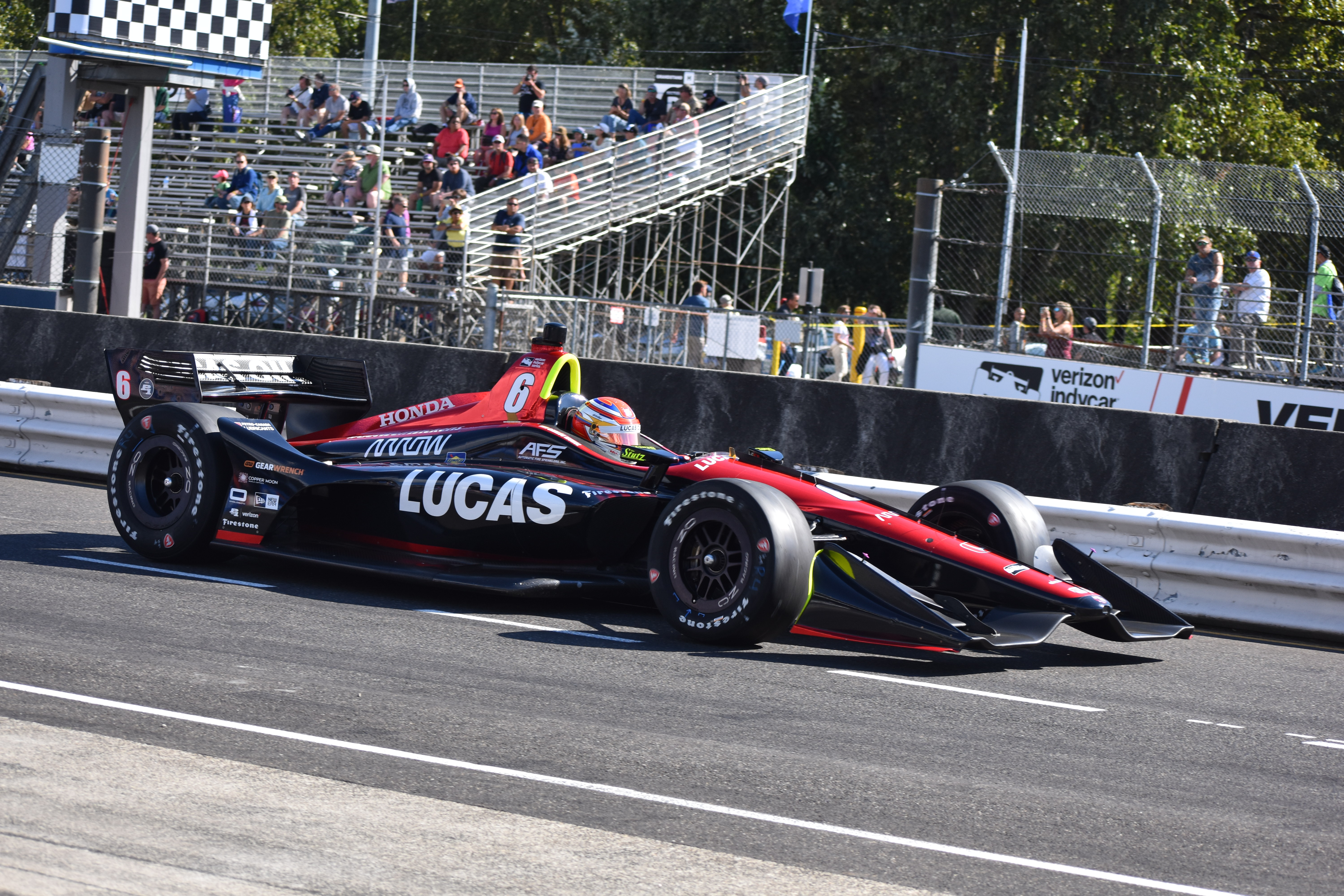 Munoz filling in for the injured Robert Wickens at the 2018 Portland Grand Prix.